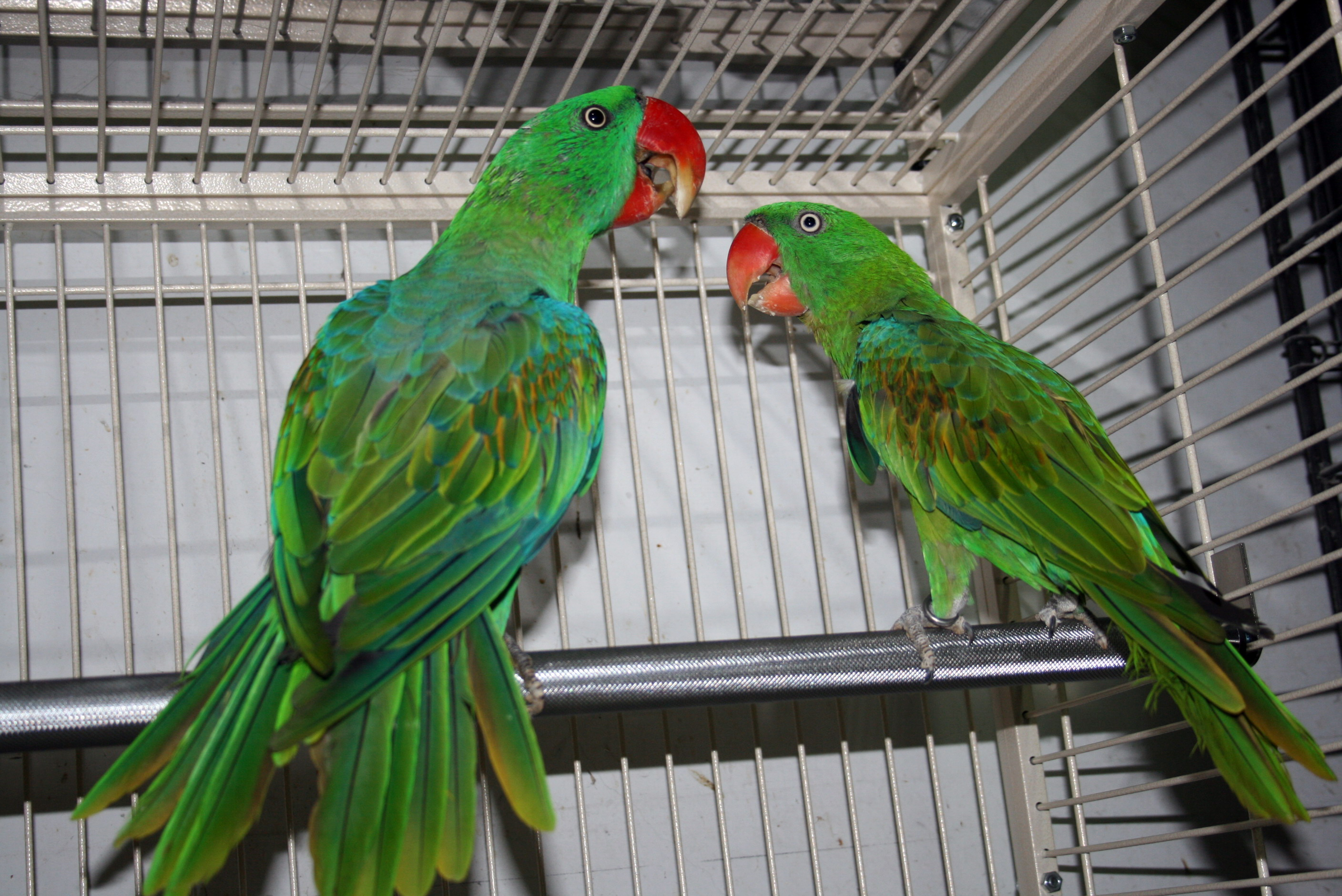 Great-billed Parrot (also known as Moluccan Parrot or Island Parrot); two in a cage.